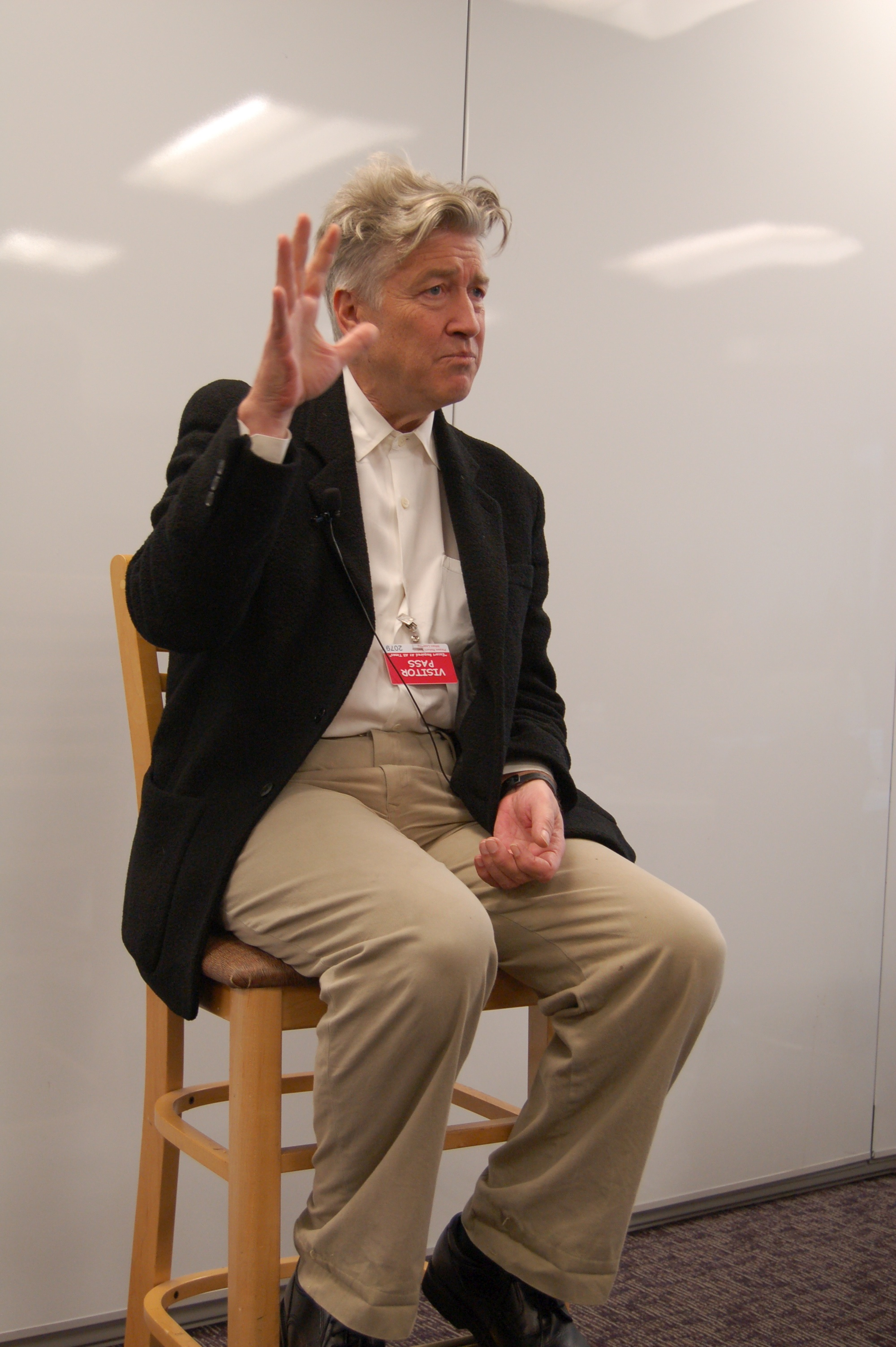 "The day you catch an idea you fall in love with, even a small one, is a beautiful day." When David Lynch is excited about something, his hands and face become amazingly animated. I tried to catch it in a few of these pictures, but I don't know if they do the trick. It is one of the most genuinely gleeful things I have ever seen.